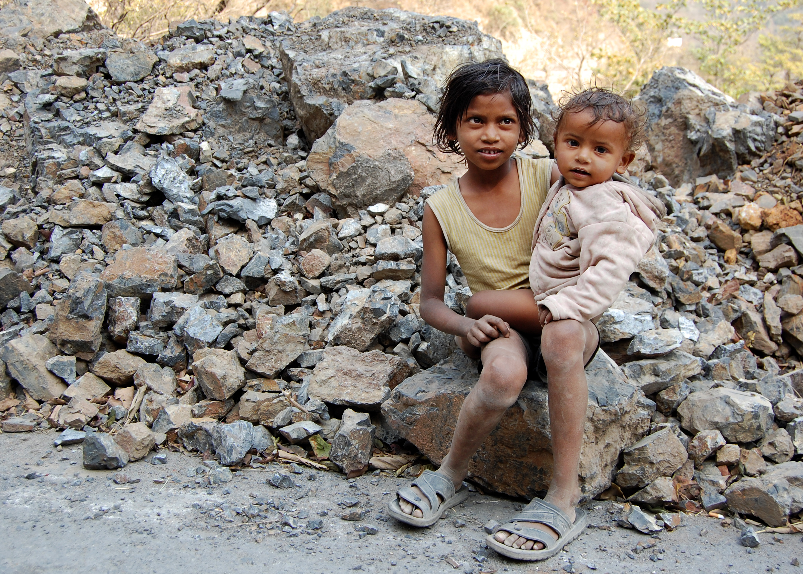 Kids on a road near Rishikesh, India. They are probably siblings and hanging around while their parents are busy building the road.